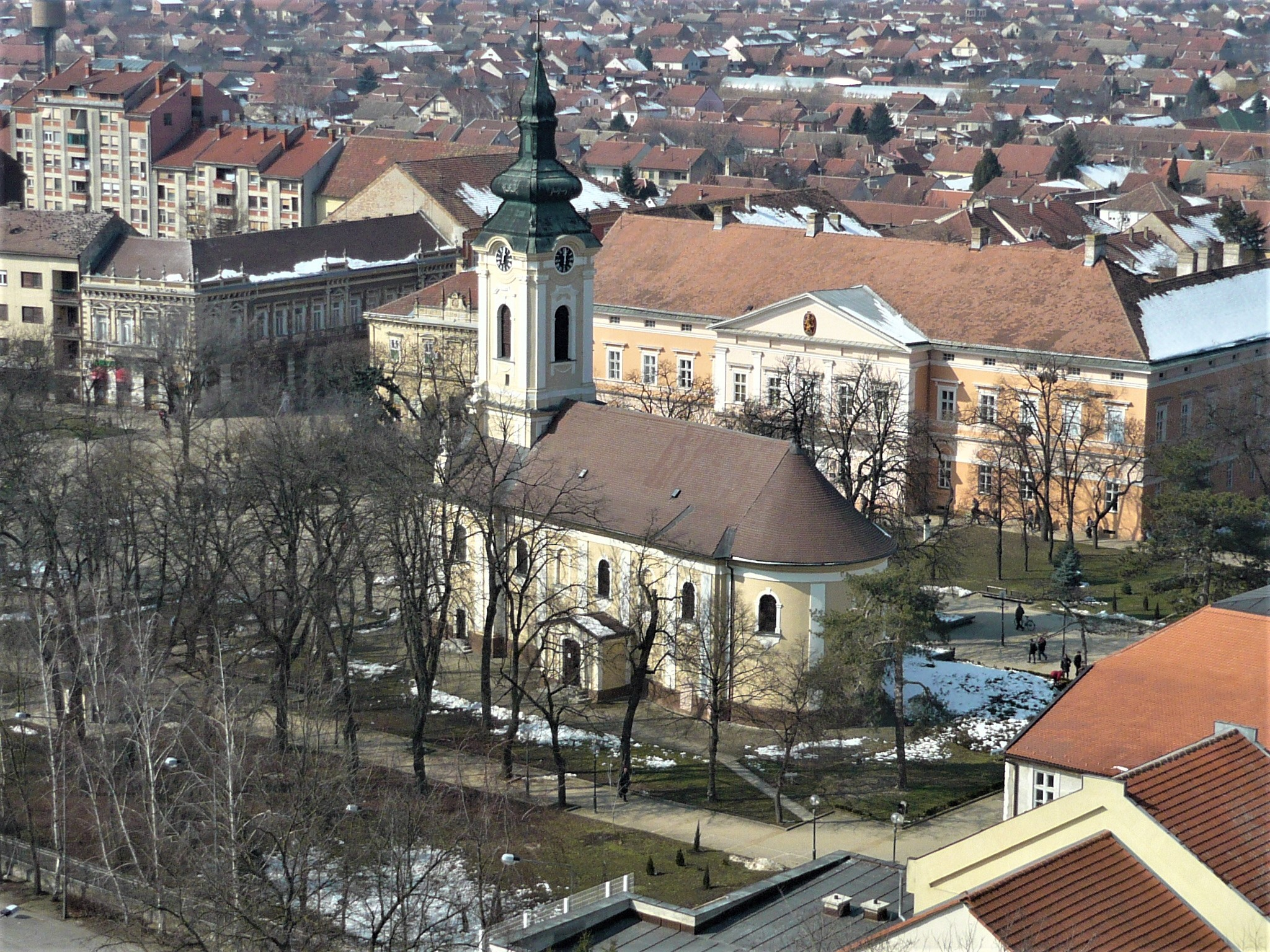 Center of Kikinda, with orthodox church and museum